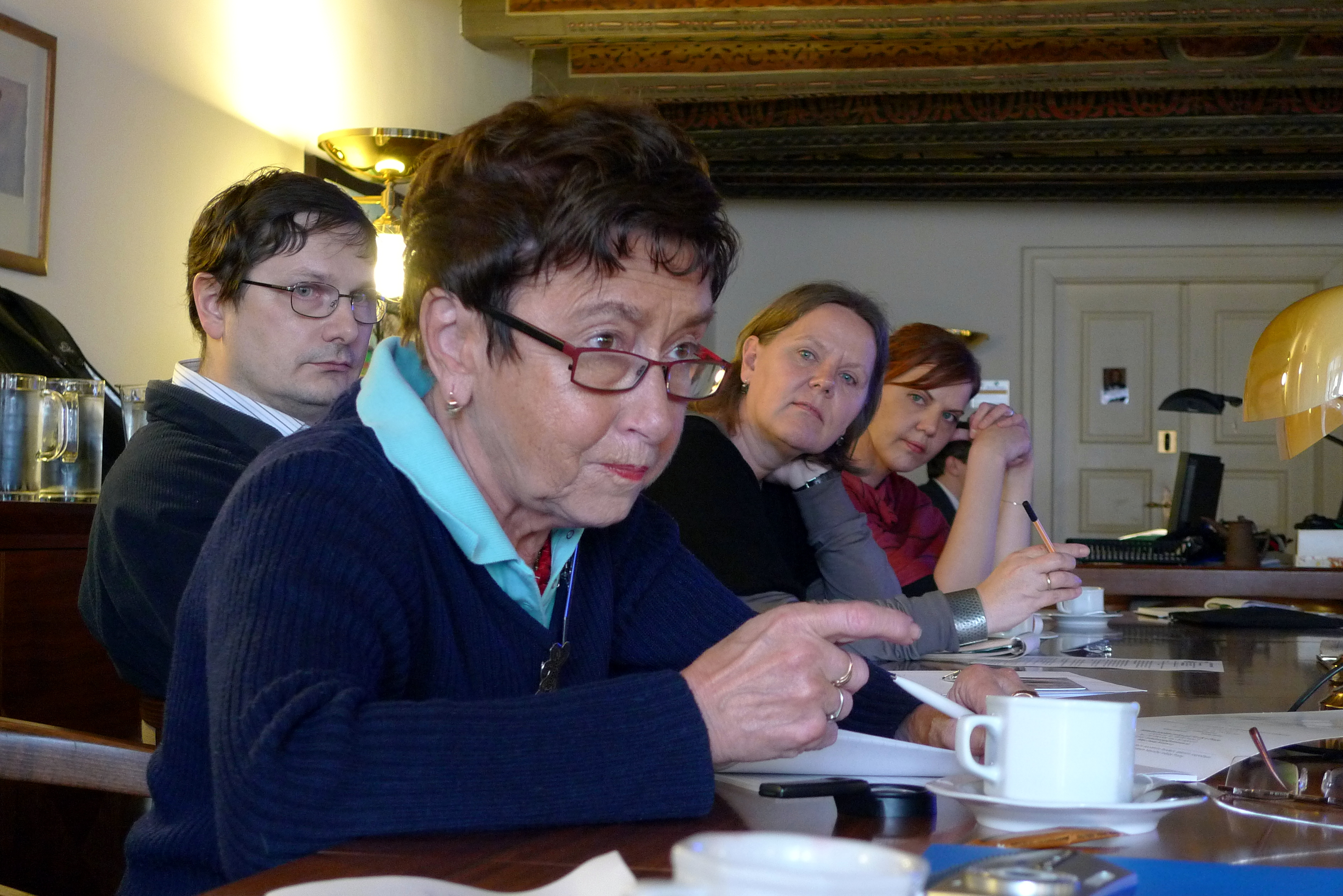 Jiřina Šiklová at the meeting of Strana zelených (Green Party) in Prague, Czech Republic